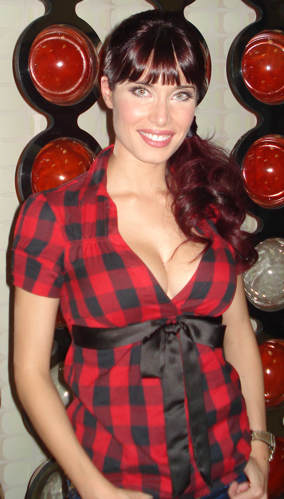 Spanish TV presenter and model Pilar Rubio.